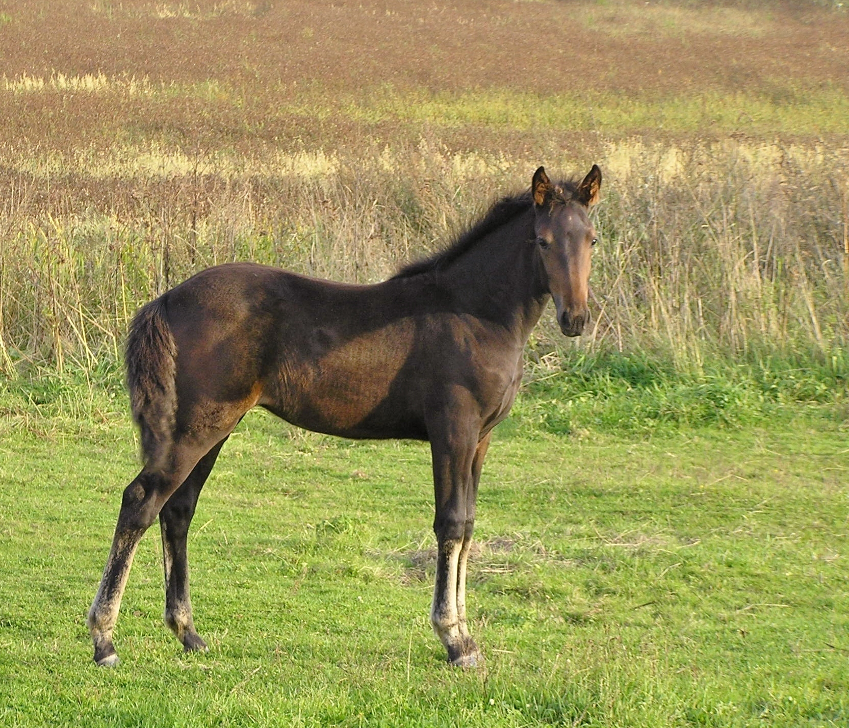 Standardbred filly FI05-1312 Azzurra - Diamond Circle